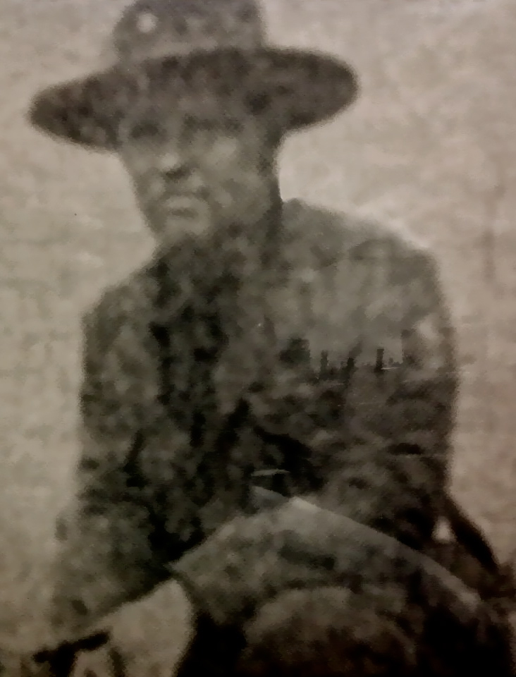 A picture of Elof Erickson, scoutmaster of Boy Scout Troop 15 in Racine, Wisconsin.